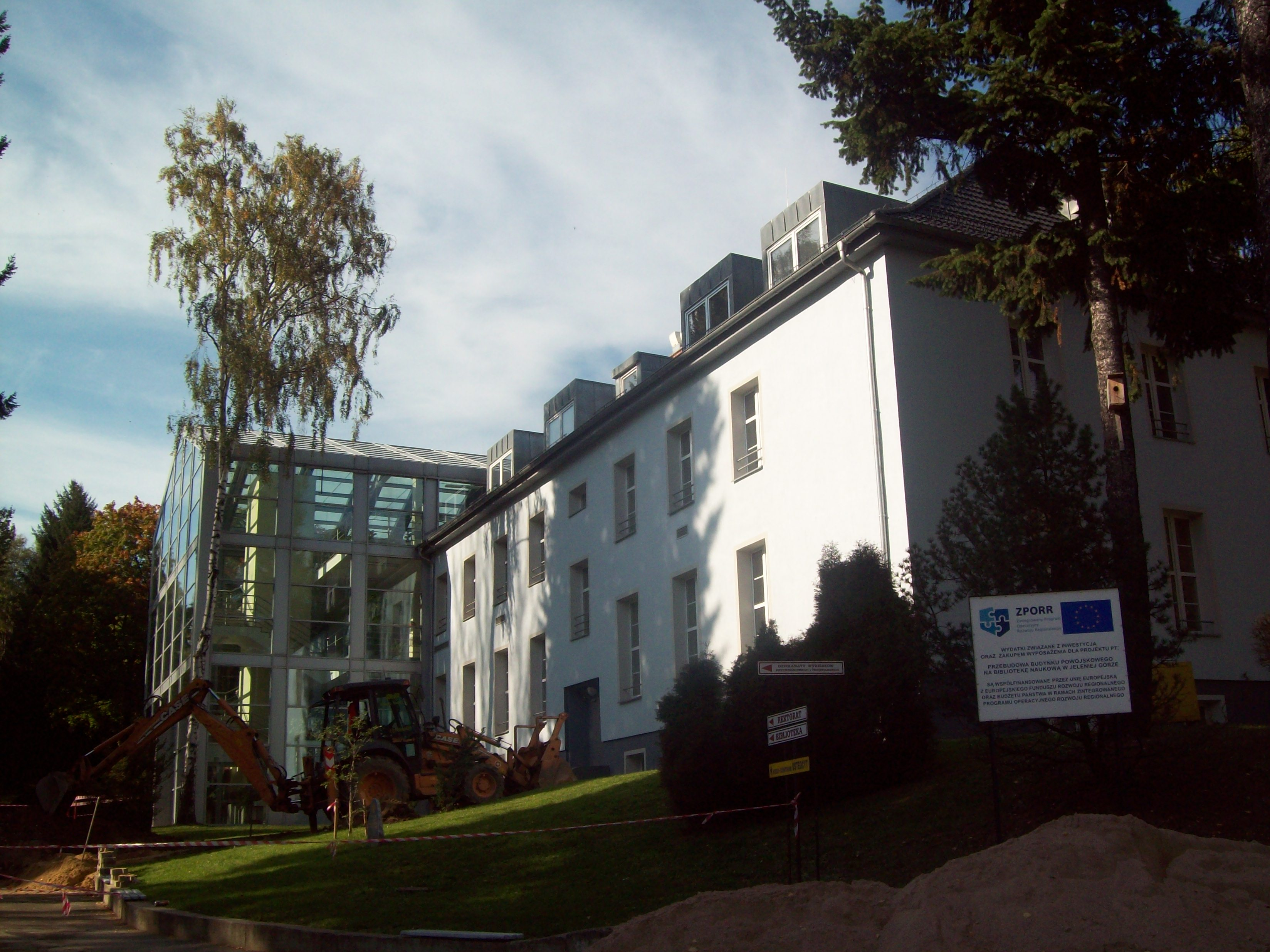 Square in front of the Library and Centre for Scientific of the Karkonosze Higher State School in Jelenia Góra